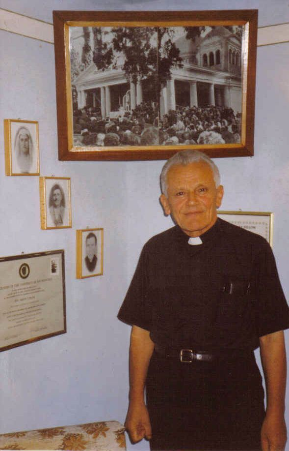 The roman-catholic priest Simon Jubani from Shkodra, Albania